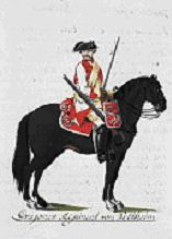 uniform of the hanoverian dragoon rgt von Veltheim. later von Ramdohr